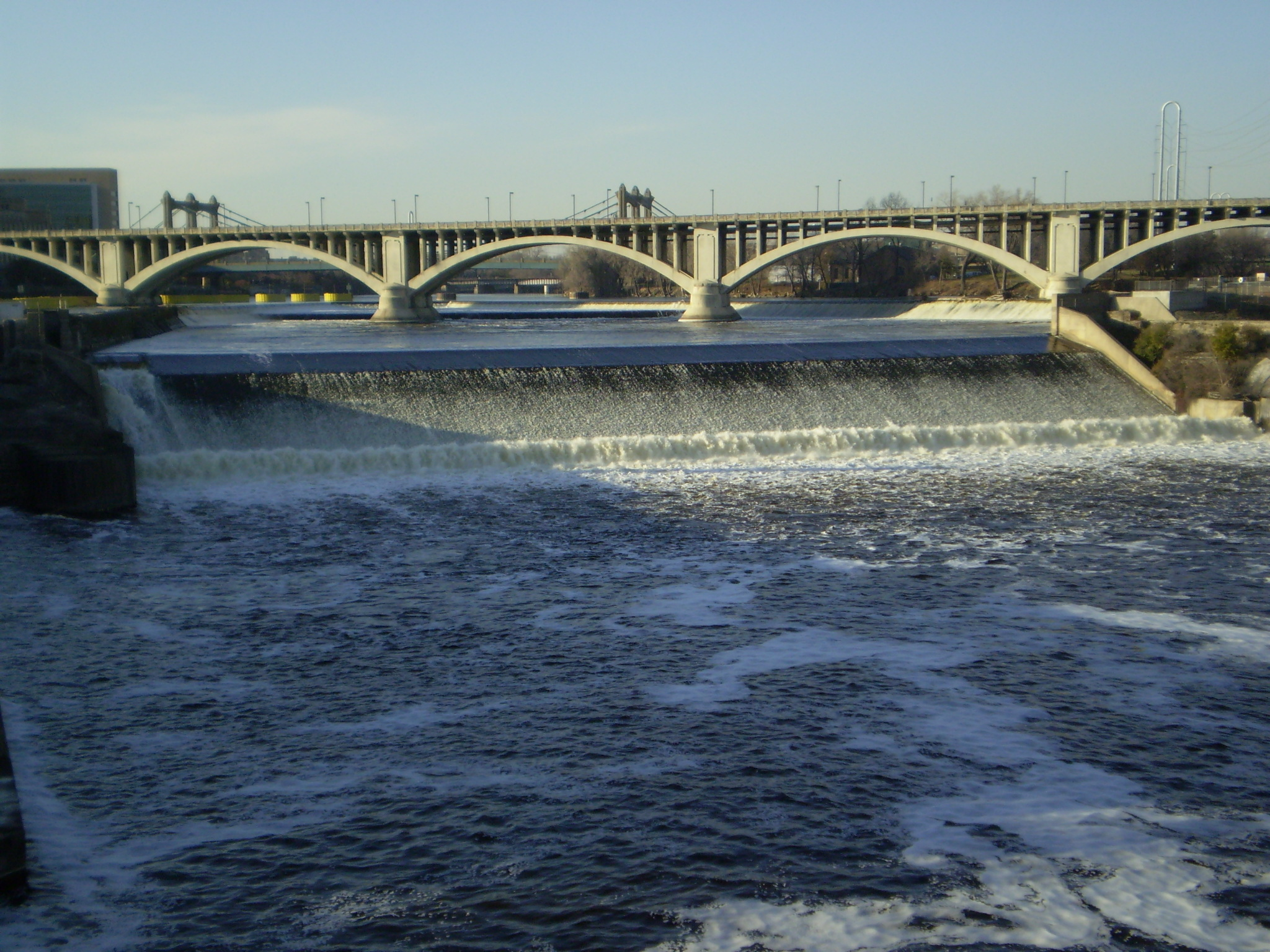 A Picture of Saint Anthony Falls along the Mississippi river in downtown Minneapolis. Taken from the Stone Arch Bridge.